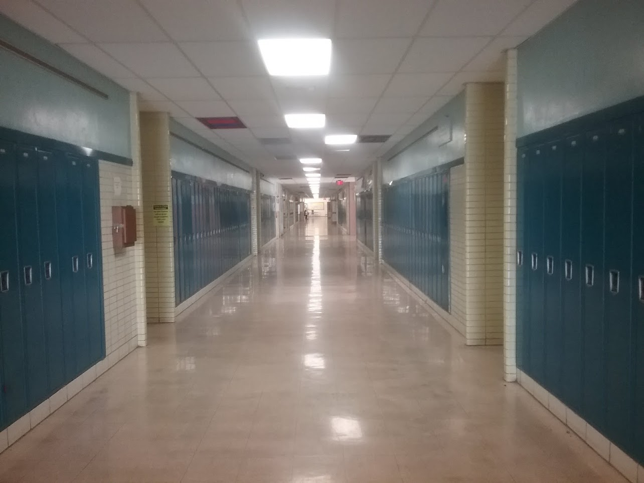 The hallway of MSL